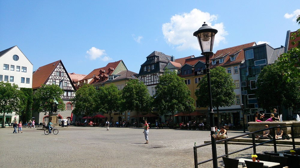 Der Marktplatz in Jena mit dem Hanfried-Denkmal